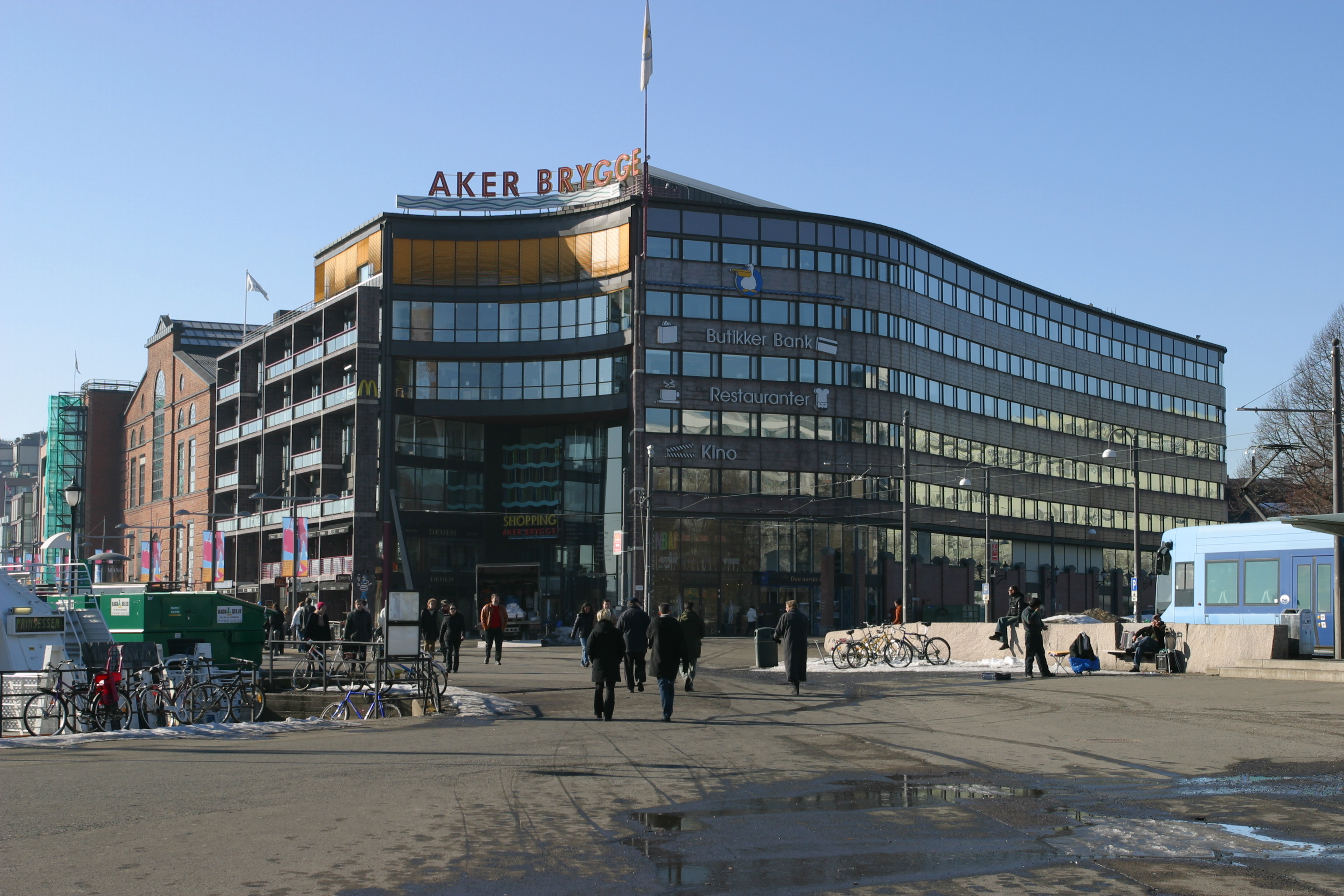 Picture of Aker Brygge (Oslo - Norway)